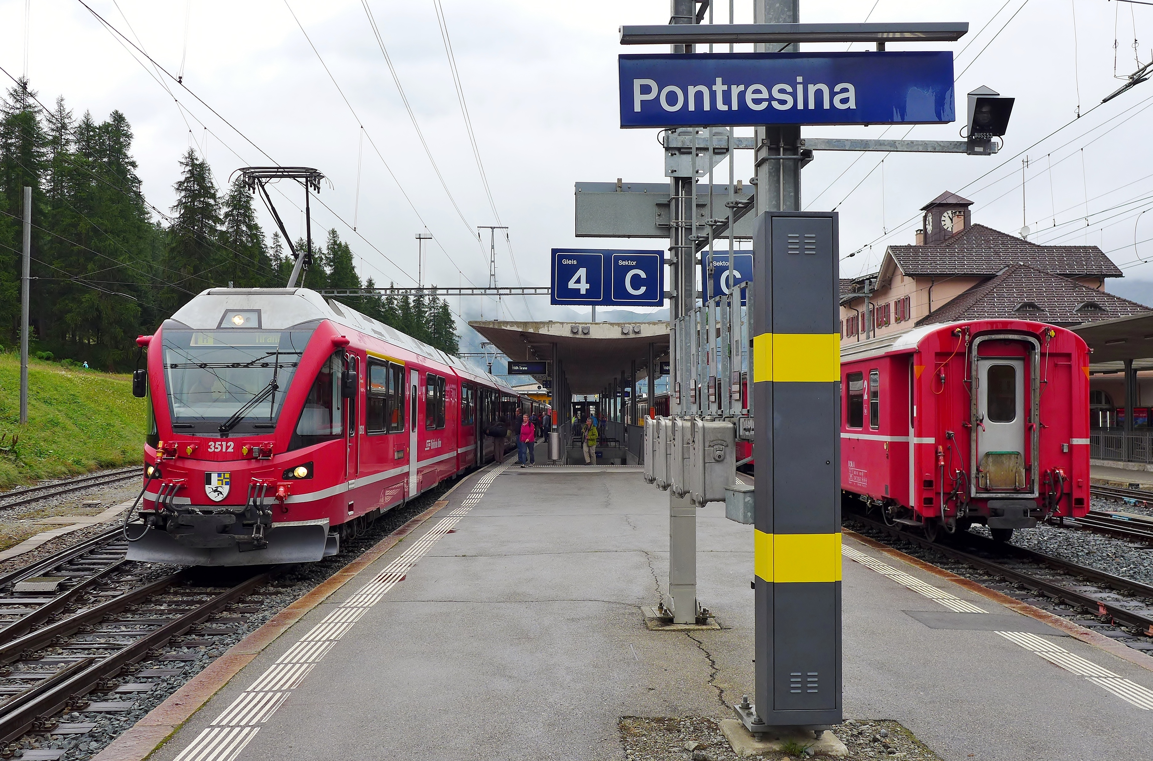 Rhaetian Railway class ABe 8/12 "Allegra" multiple unit train no. 3512 Jörg Jenatsch awaits departure from Pontresina railway station, Switzerland, with a Bernina railway service to Tirano, Italy.